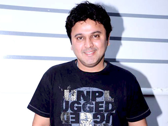 Ali asgar